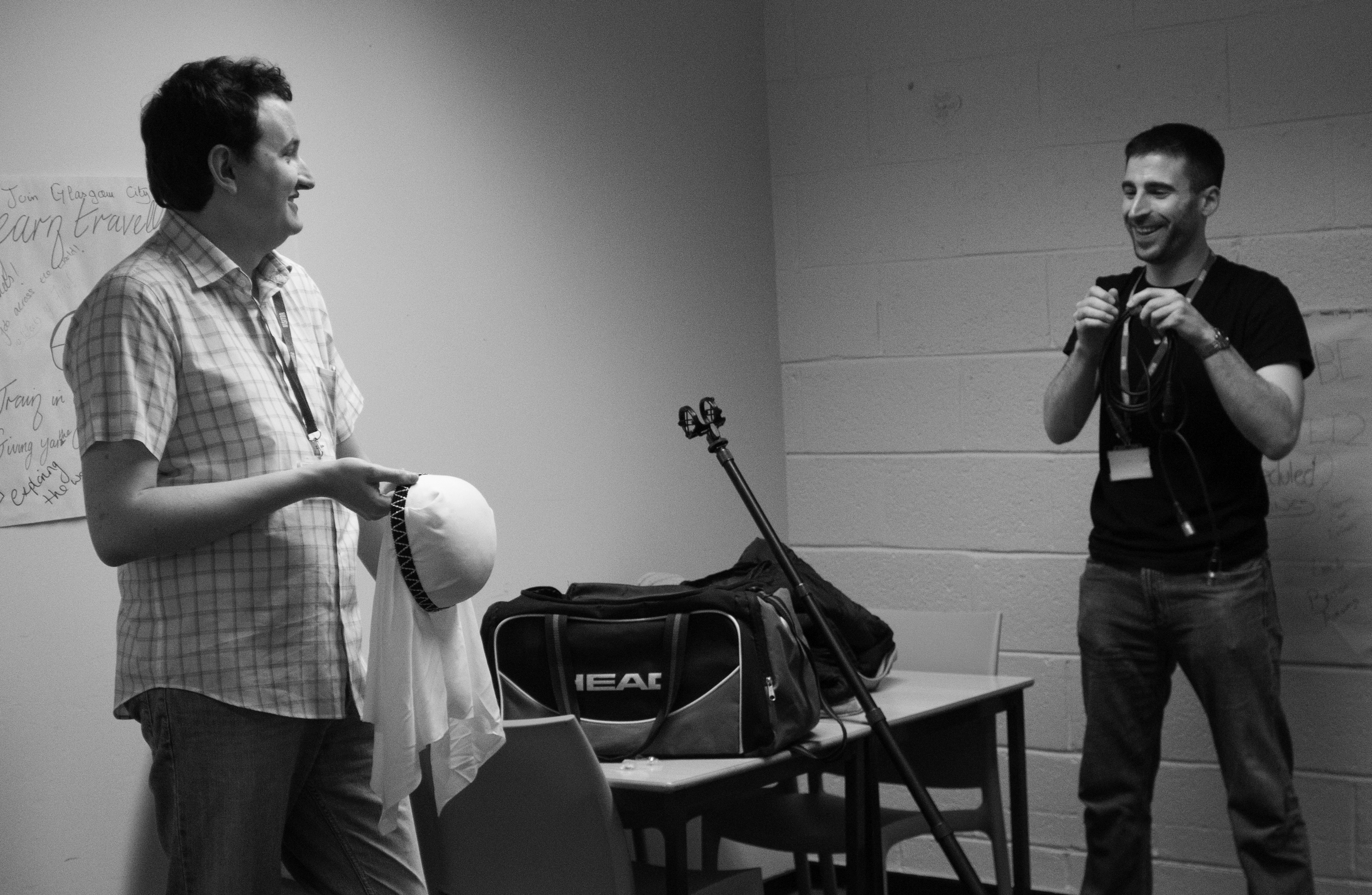 Chris Quick & Mark Ferguson on set filming the teaser trailer for Autumn Never Dies.